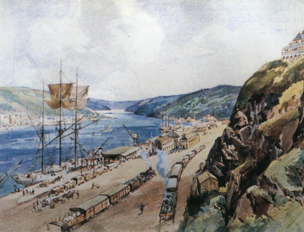 Painting of East London in Cape Colony. View of early railways on Buffalo River.